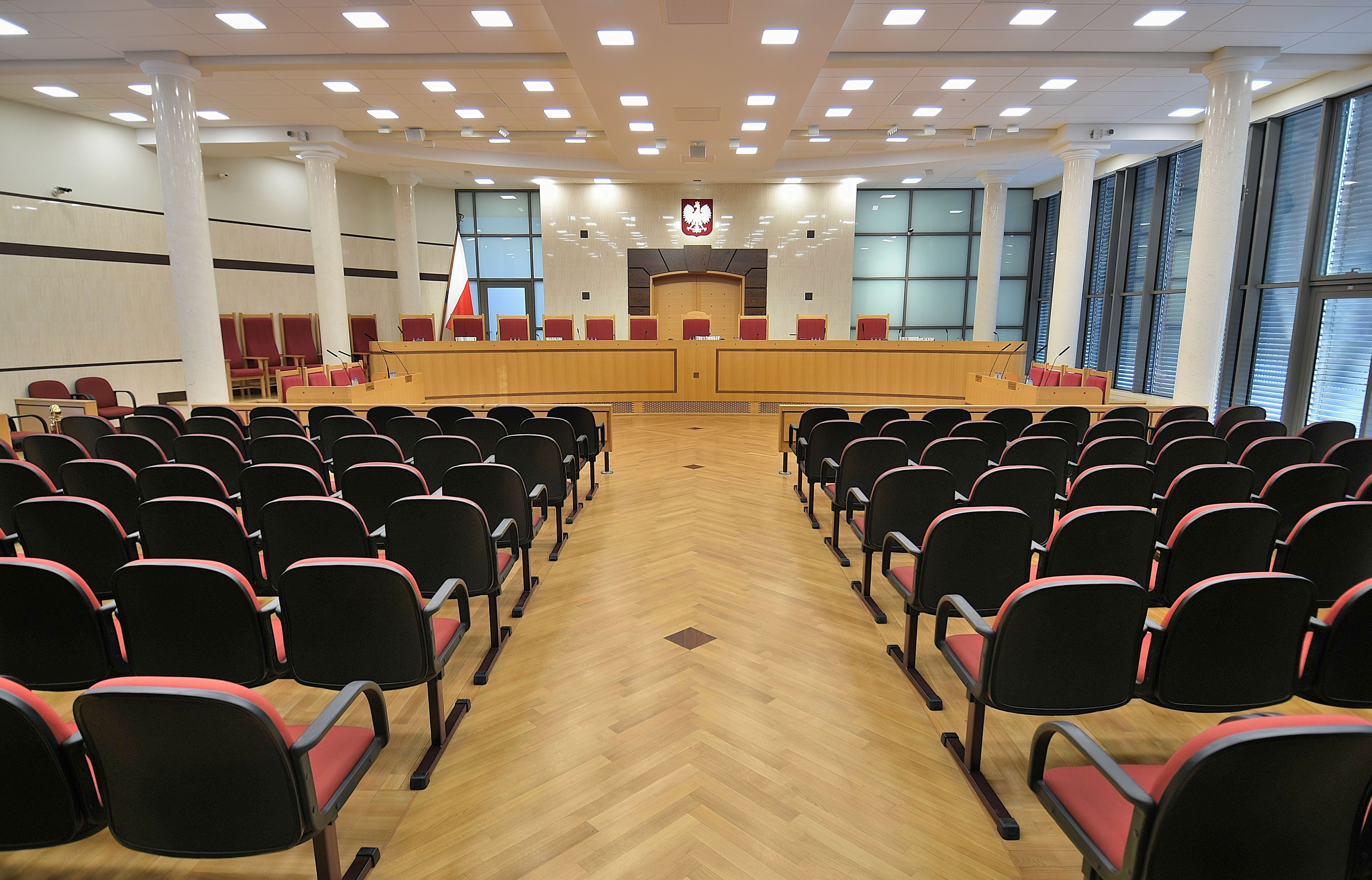 Main courtroom of the Polish Constitutional Tribunal